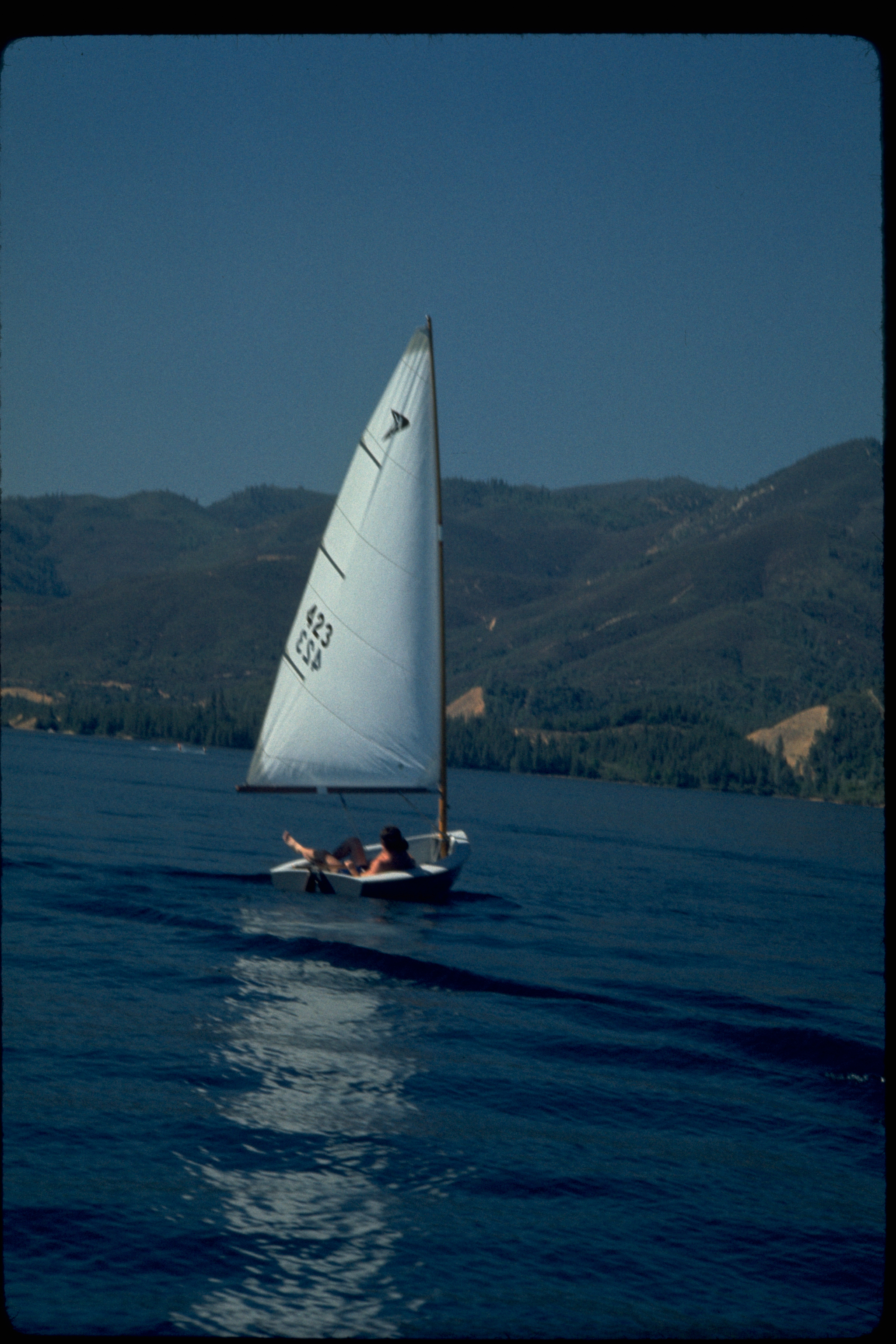 Whiskeytown Lake in Whiskeytown National Recreation Area, Shasta County, California. An all season park with year round recreation. Winter storms leave snow at the higher elevations, but sunny winter days provide opportunities for horseback riding, hiking and mountain biking at the lower elevations. Spring brings excellent opportunities for wildflower viewing and birding.